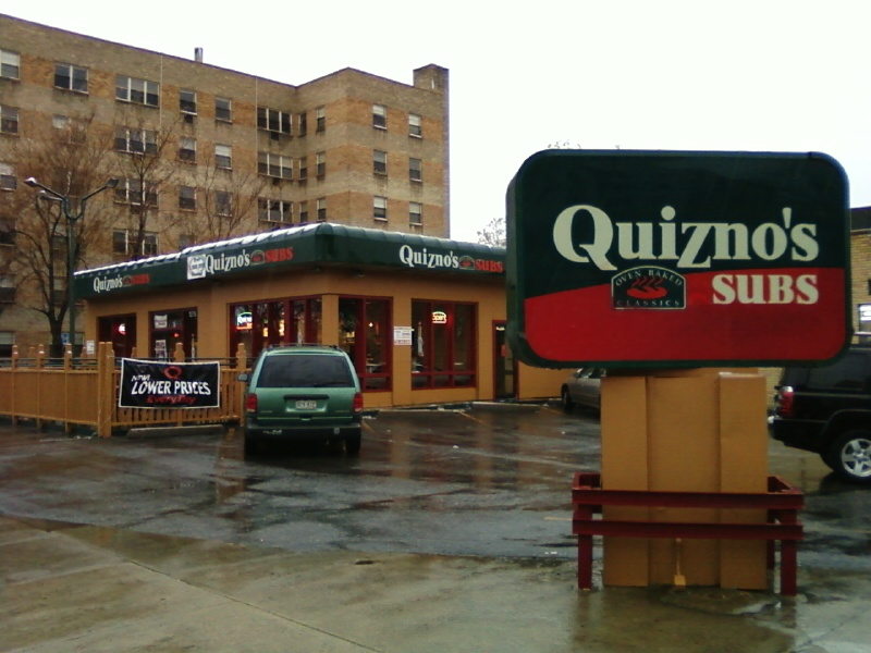 The first Quizno's Subs restaurant, a former Sinclair station, located in Capitol Hill, Denver, Colorado.